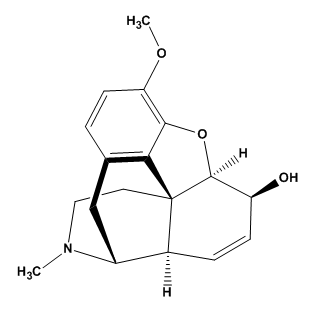 Structure of codeine